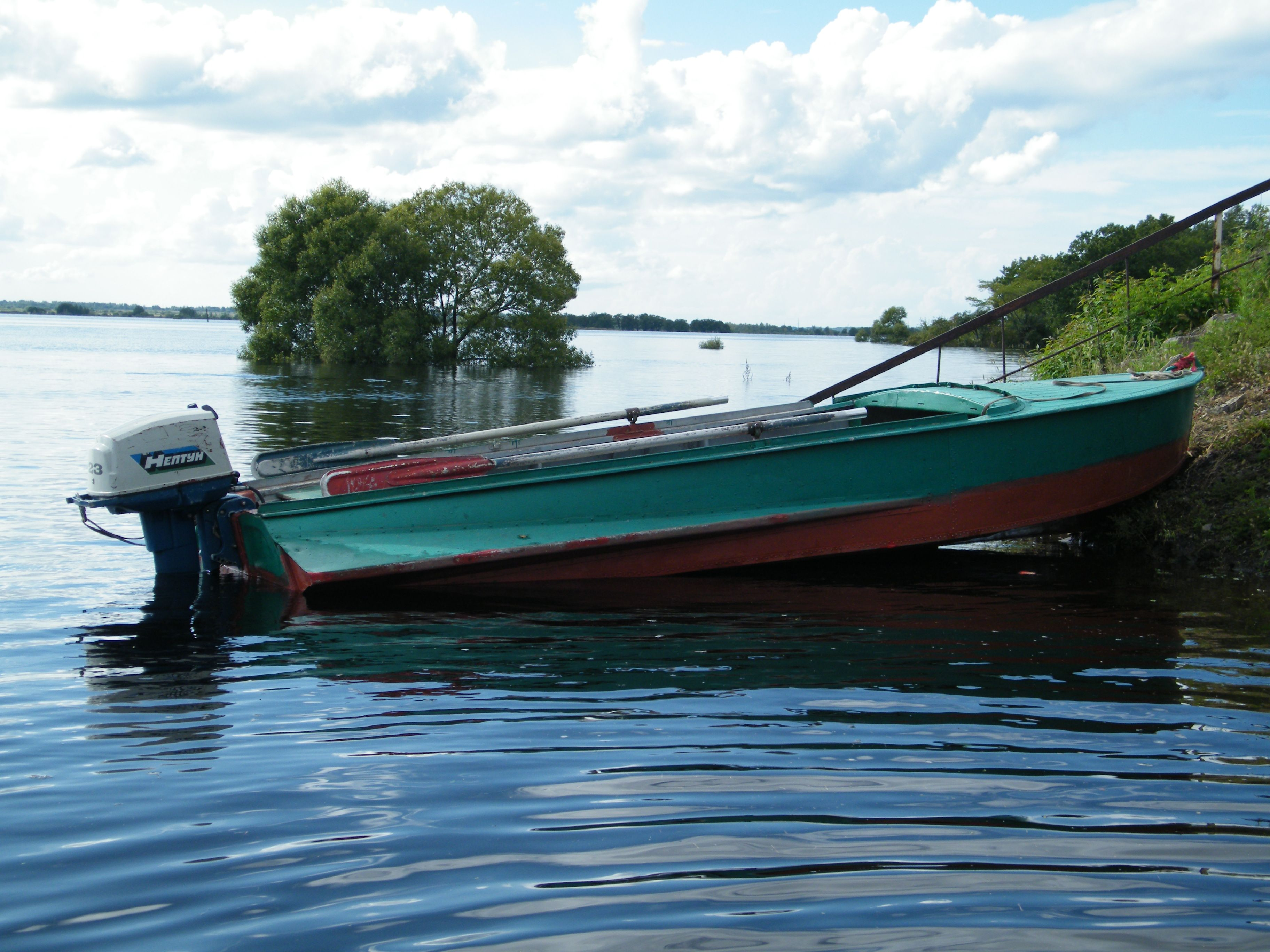 Казанка с булями и Нептун-23